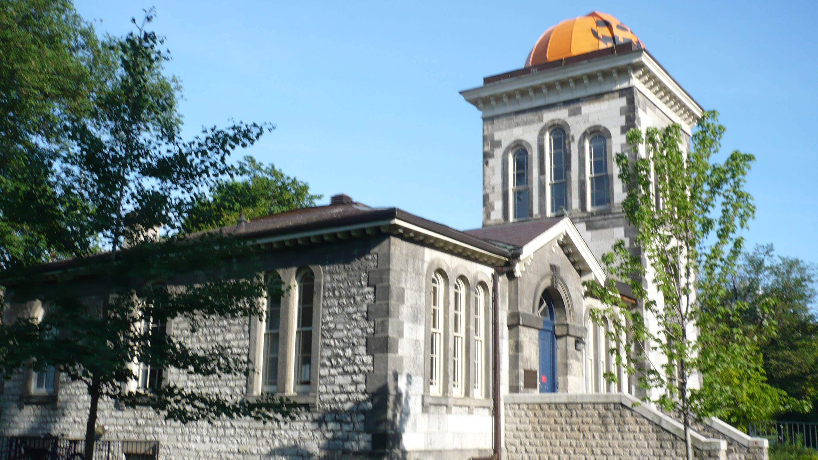 University of Toronto Students' Union